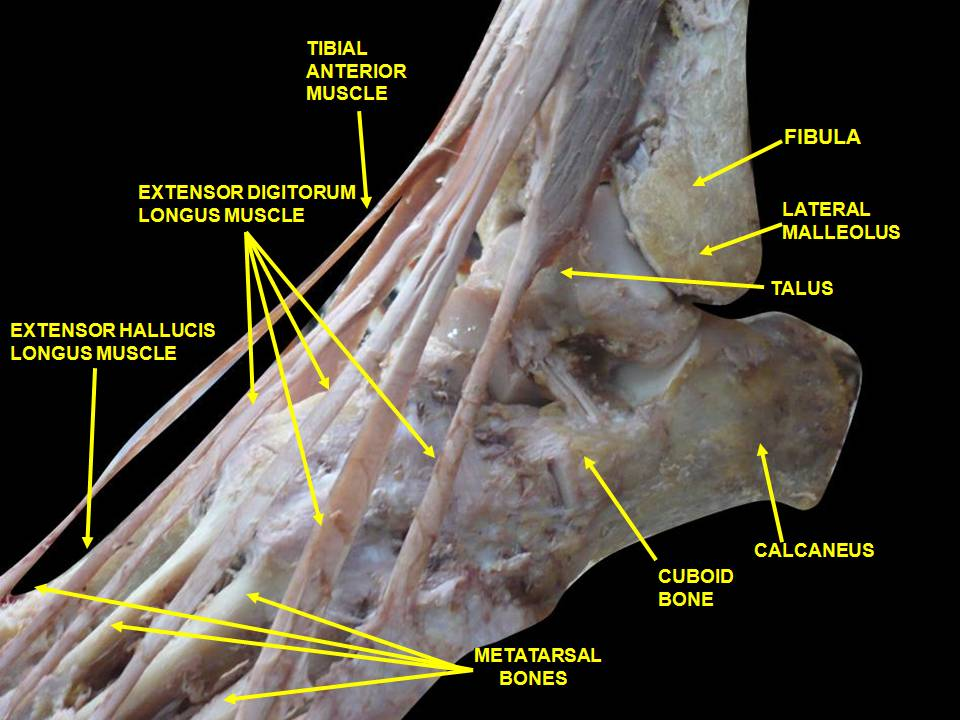 Anatomical dissections